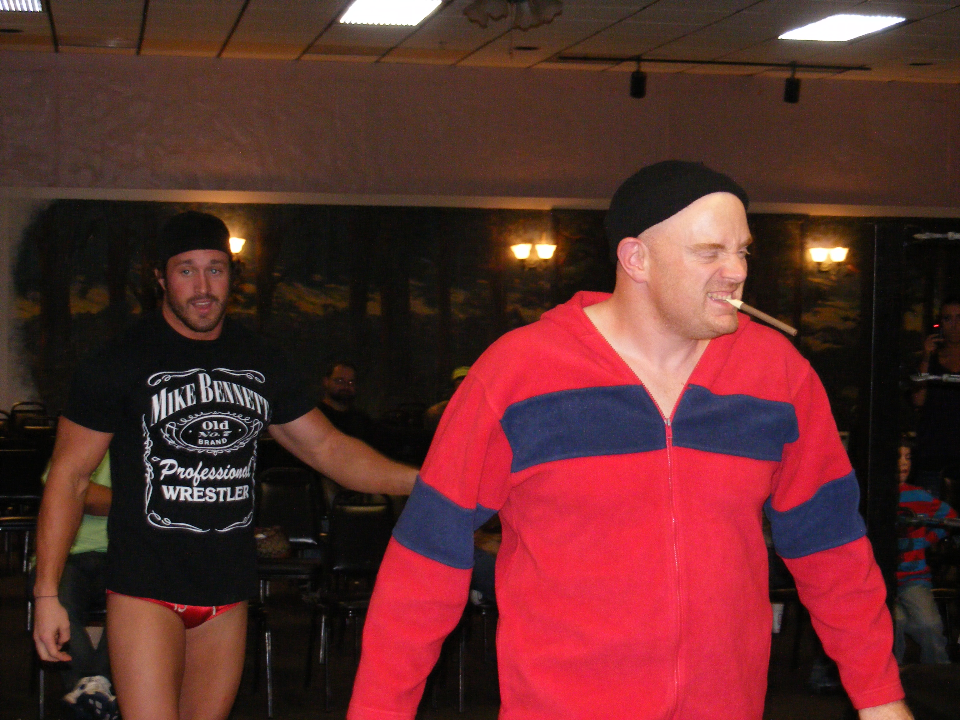 Mike Bennett (left) and "Brutal" Bob Evans (right# in the ring at a CWL show in October 2011 in Woonsocket, Rhode Island.